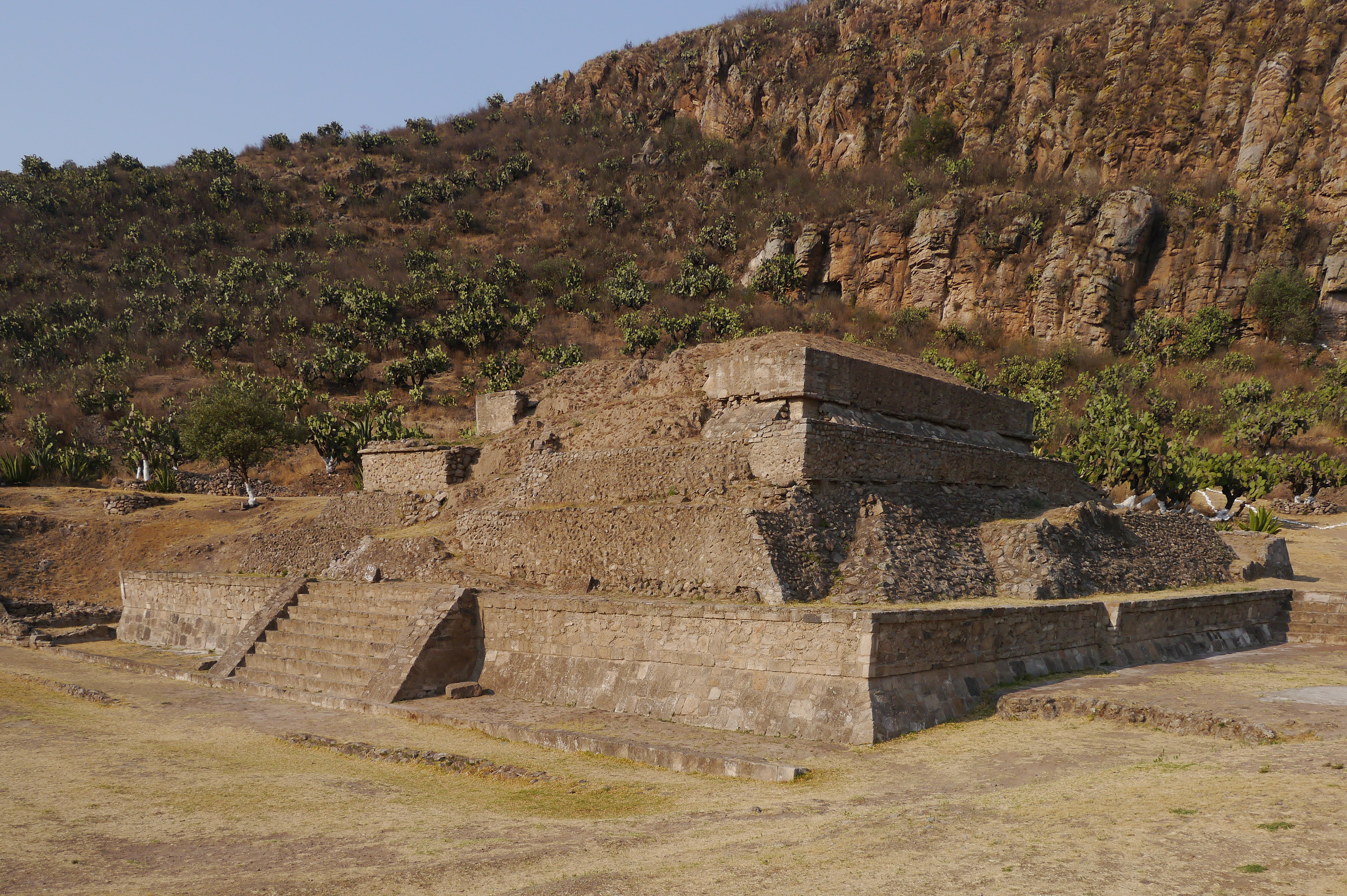 Huapalcalco (Pyramid) Archaeological Site / Zona Arqueologica. The site was established during the Toltec period of meso-America (100-650 CE). Archaeologists say it was influenced by, but not designed by the contemporary builders of Teotihuacan Valley of the Sun pyramids - fifty miles away.